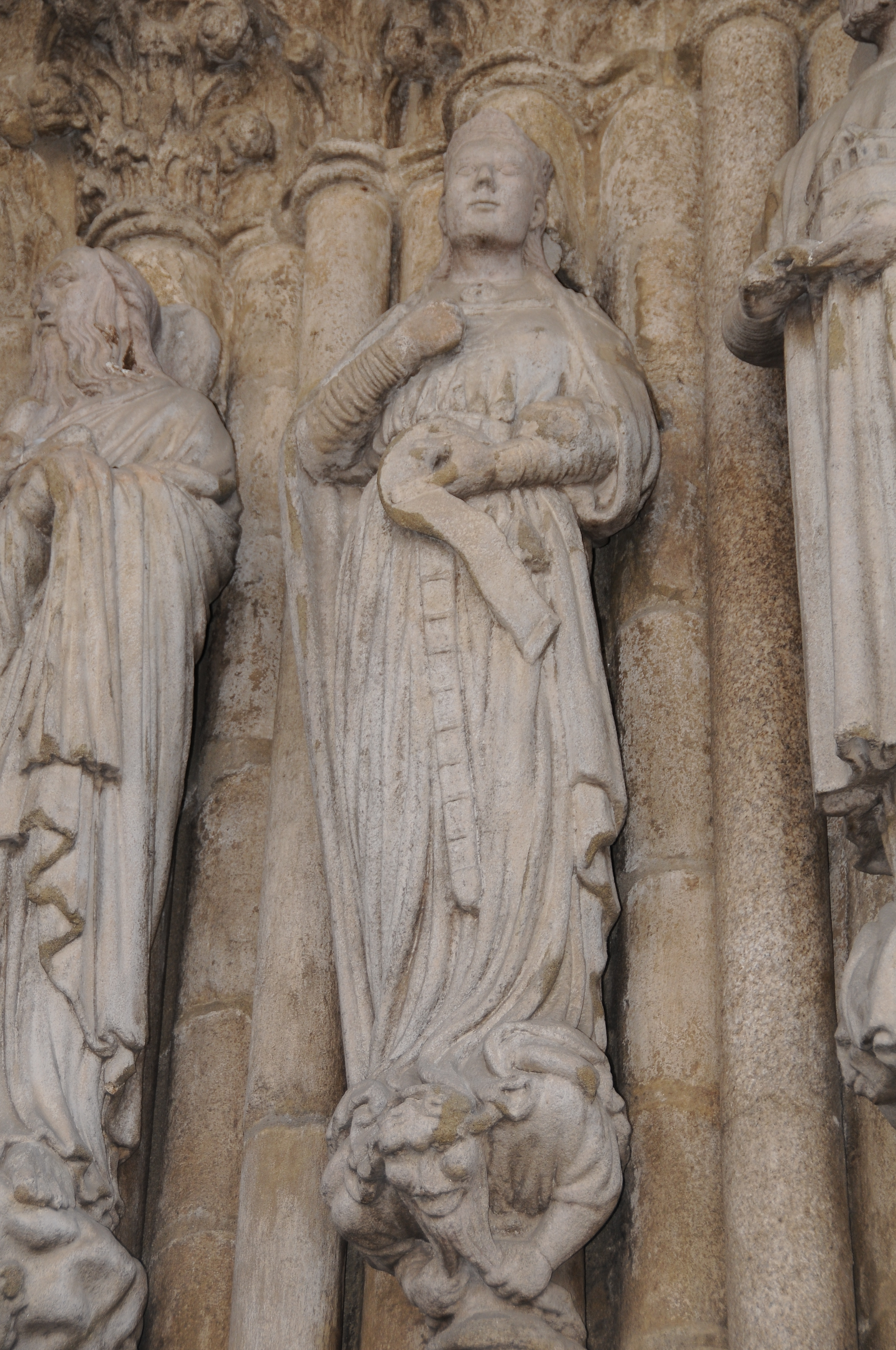 Statue of Urraca of Portugal, Queen-consort of Spain, in Cathedral of Tui, Tui, Galicia, Spain